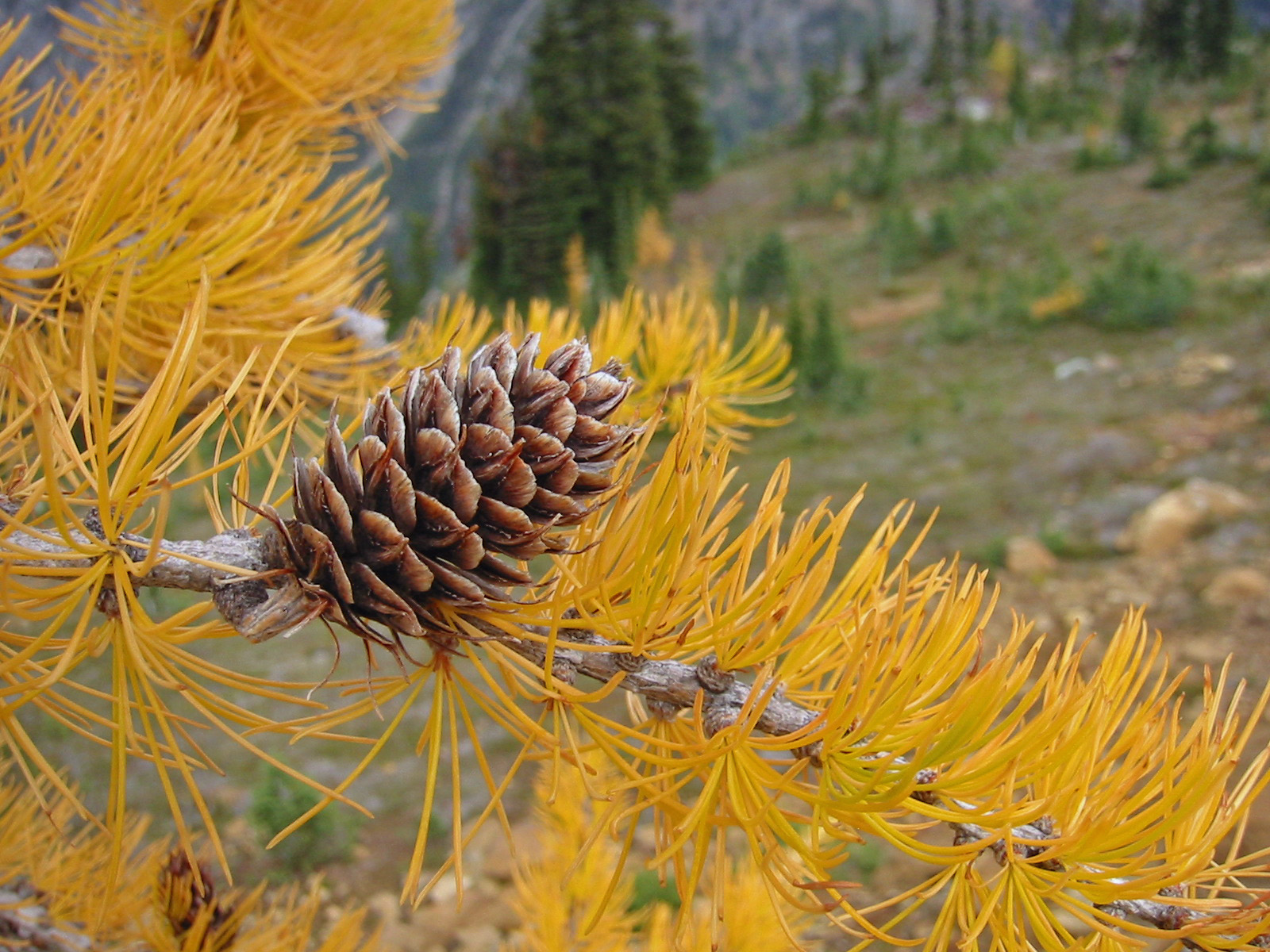 Subalpine Larch Description: Subalpine Larch (Larix lyallii) fall foliage and cone. Mountain Hemlock and Subalpine Fir are behind. Viewpoint location: About 0.25 km southeast of Paddy-Go-Easy Pass. The pass is in the Wenatchee Mountains, an eastern spur of the Cascade Range, located in Wenatchee National Forest, Washington, USA, about 21 km south of Stevens Pass. GPS: UTM 10 646163E 5267366N (WGS84/NAD83) USGS The Cradle Quad [1] Viewpoint elevation: 6150' View direction: East Date and time: 2005:10:09 14:53:10 PDT Camera: Canon PowerShot S110 Photographer: Walter Siegmund ©2005 Walter Siegmund